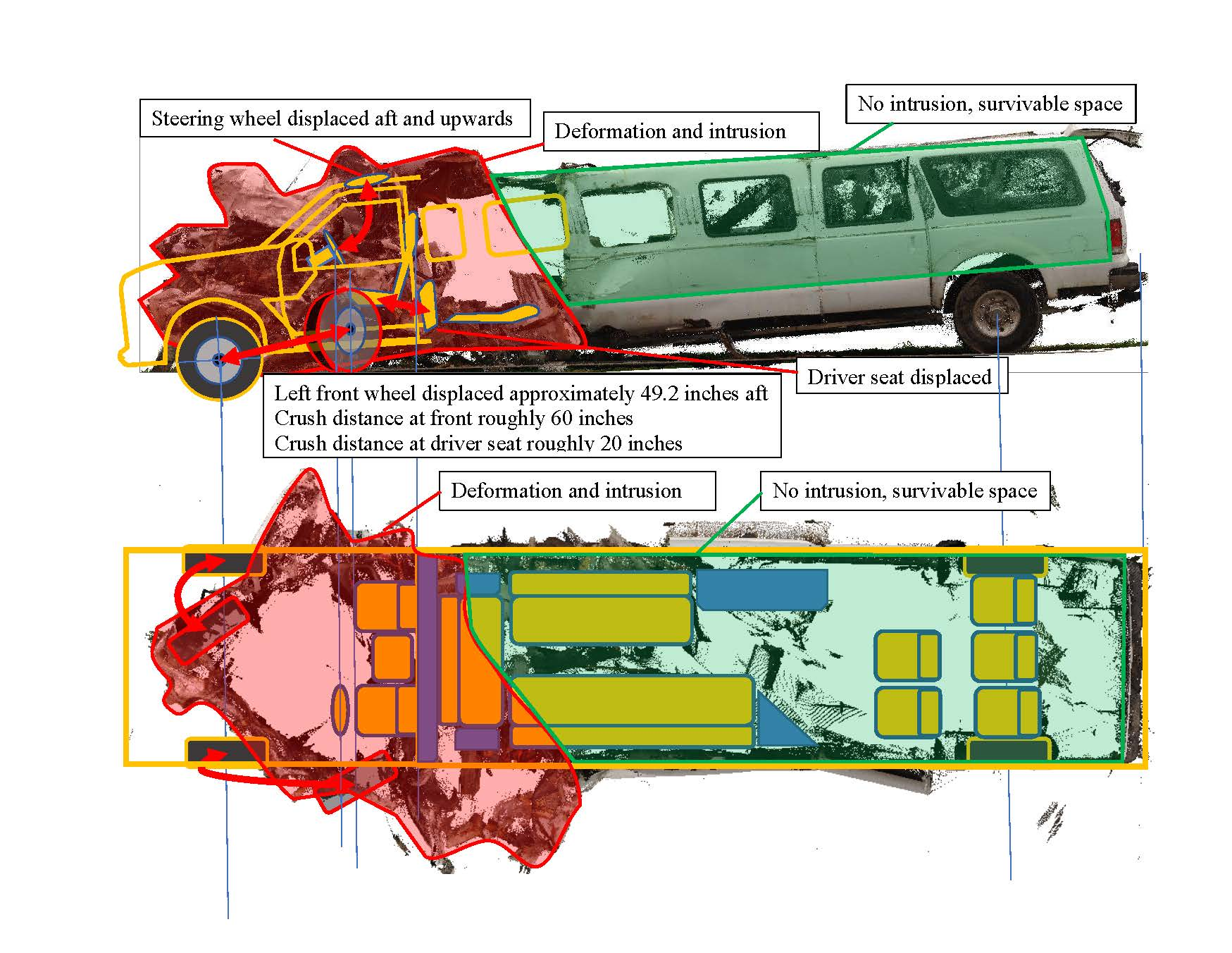 WASHINGTON (Oct. 2, 2019) -- This image, released Wednesday as part of the NTSB's Safety Recommendation Report 19/02, depicts the side- and overhead-view, post-crash 3D image of the limousine from the Oct. 6, 2018, Schoharie, New York. The crash killed the limousine driver, 17 passengers and two pedestrians. (NTSB graphic)